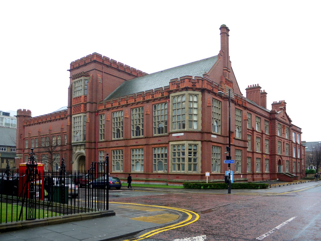 Sutherland Building, College Street Built for the University of Durham College of Medicine 1887-95, by Dunn, Hansom and Dunn. It was later a Dental Hospital and Medical School, now part of the University of Northumbria.